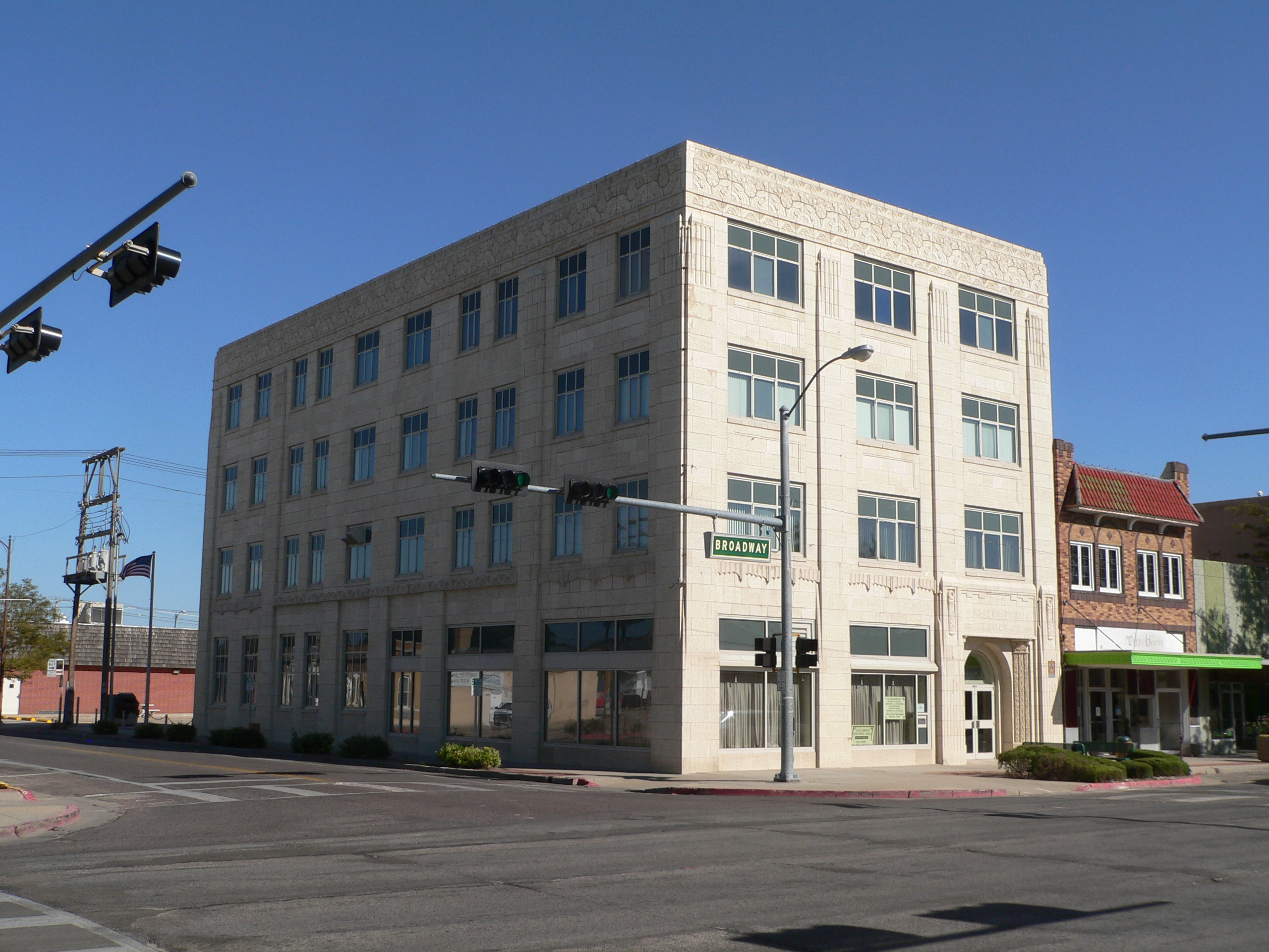 Western Public Service Building at southeast corner of Broadway and 18th Street in Scottsbluff, Nebraska; seen from the northwest. The Renaissance Revival building was constructed in 1930-31. It is listed in the National Register of Historic Places.